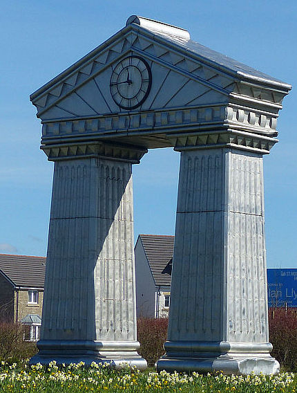 Clock arch on a roundabout, Glan Llyn, Newport